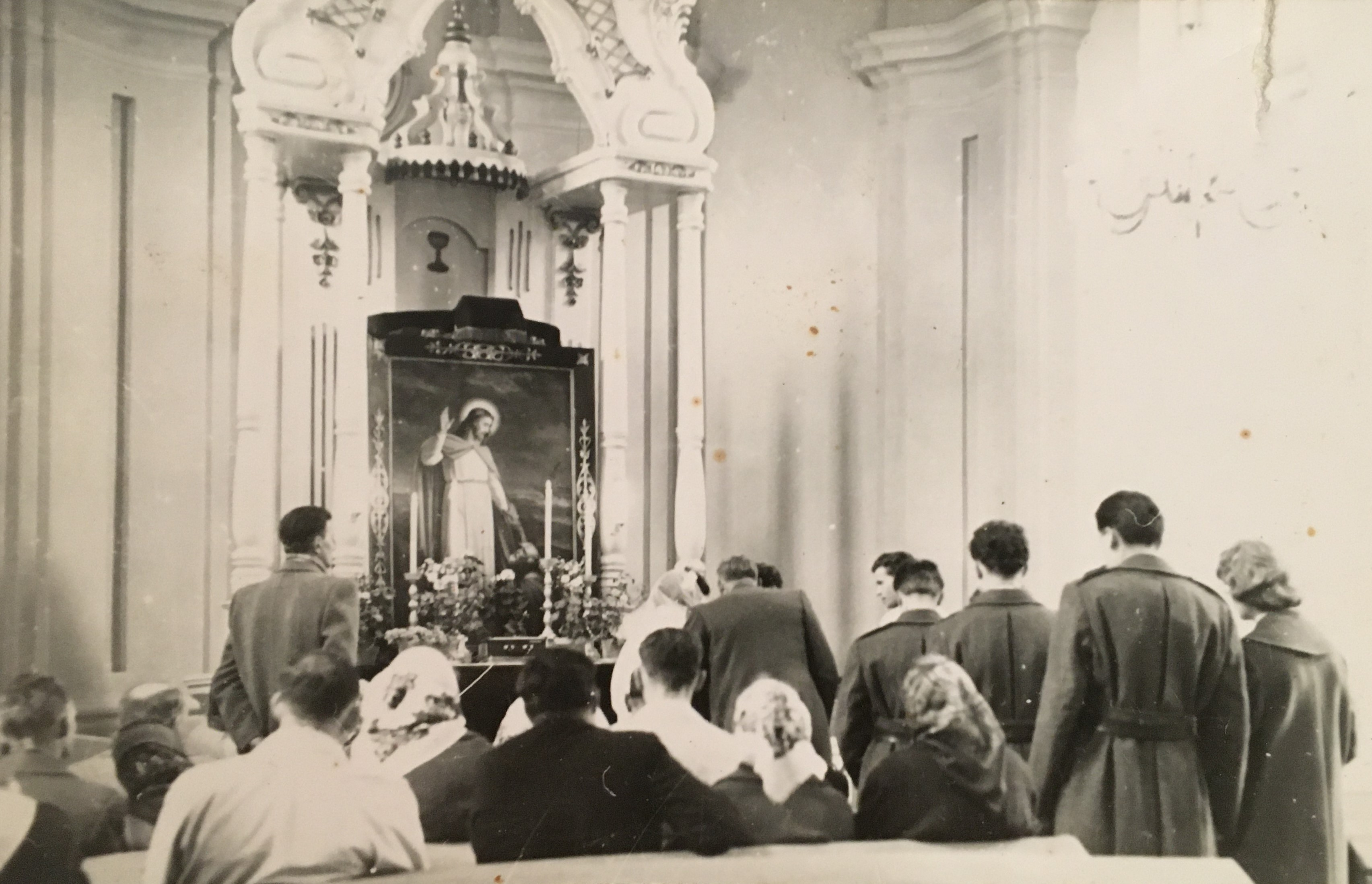 Interior of the evangelical church in Hošťálková in 1957